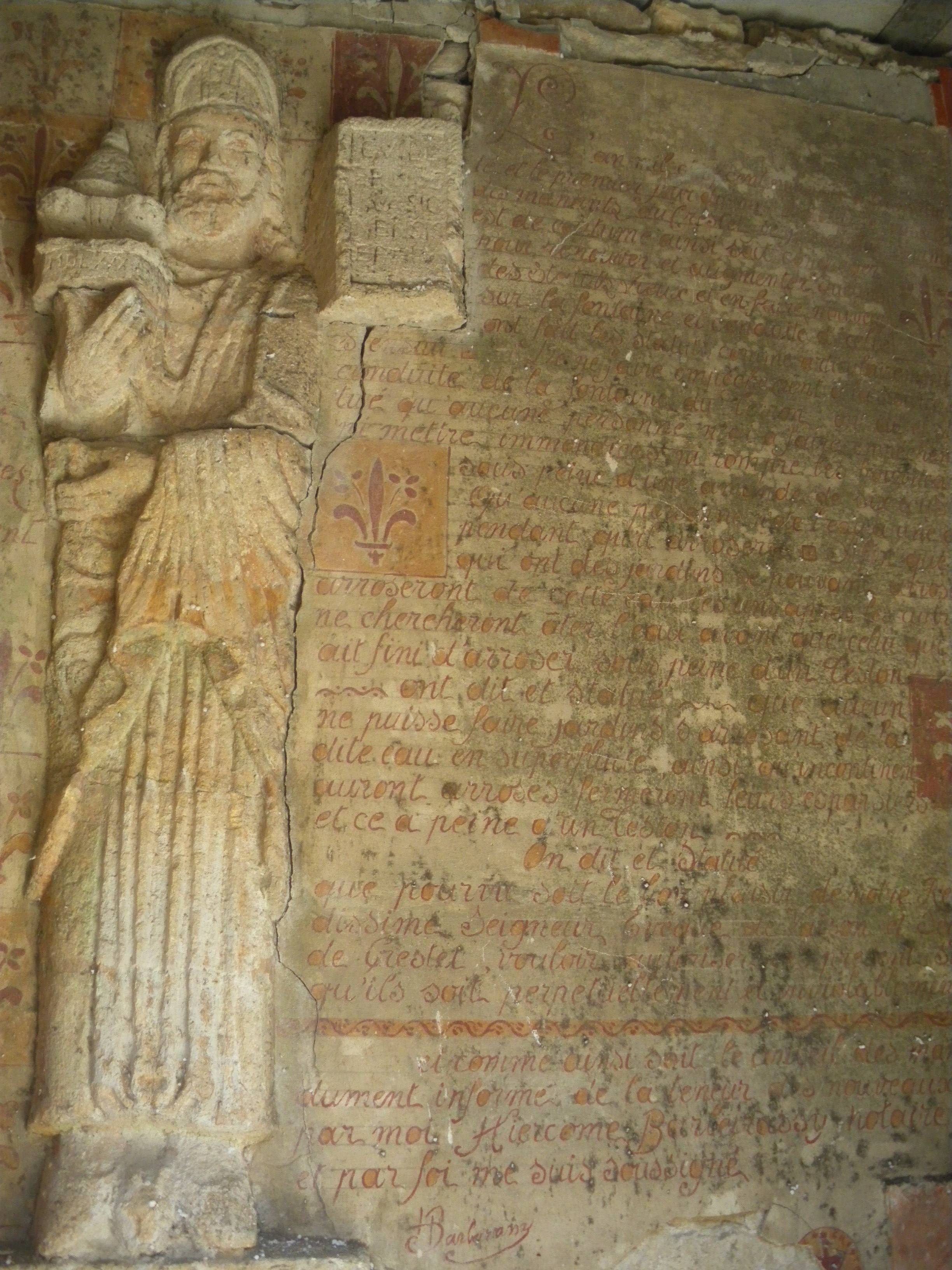 Statue of William Chisholm, former bishop of Dunblane, bishop of Vaison, bearing the year 1580. This statue is rue de la Calade, at Crestet. It may have been made by the sculptor René Durieux (Bordeaux 1898 - Crestet 1952), who showed his work at Crestet from 1930 onwards.